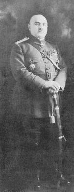 Prince Jaques Bagratuni